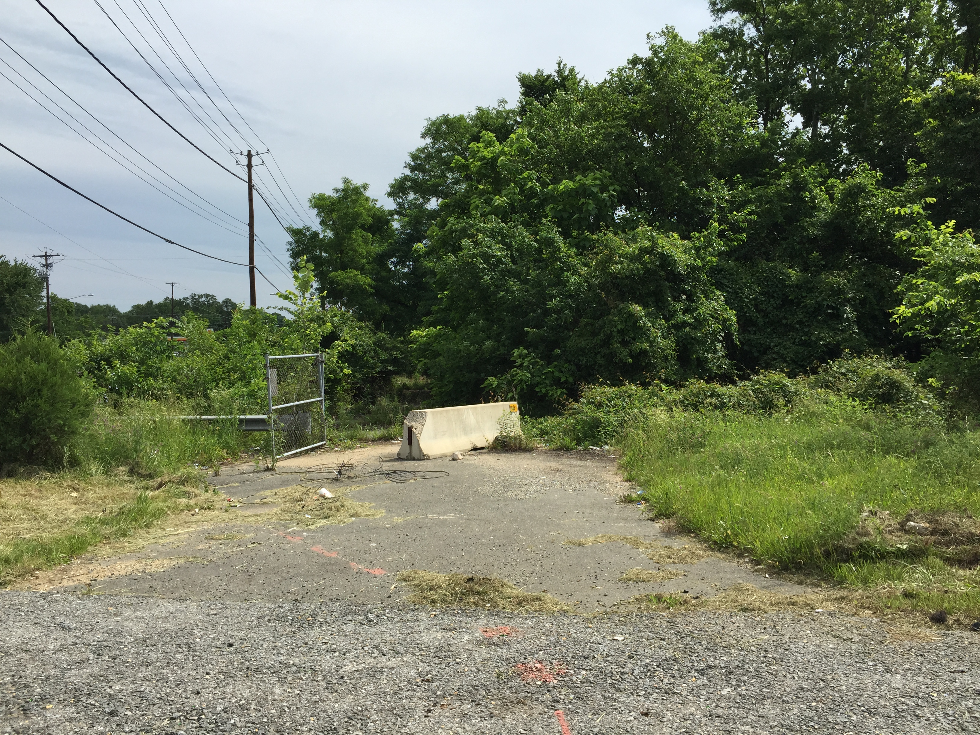 View east along Maryland State Route 963 (Deputy Lane) at Hill Road in Summerfield, Prince George's County, Maryland